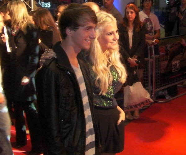 Pixie Lott and Lucas Cruikshank at the Jackass 3D movie premiere on November 2nd, 2010. The real image was cropped for a better view of the article, which can be found here.